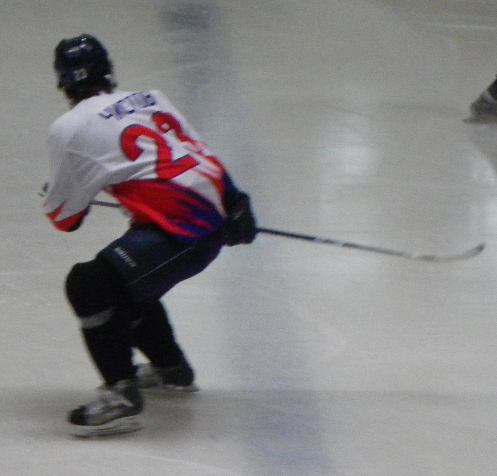 Stanislav Chistov, russian ice hockey player with Metallurg Magnitogorsk